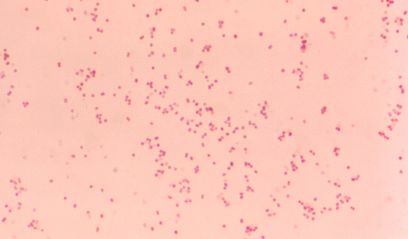 Pictorial representation of diplococcuus formation in M. catarrhalis